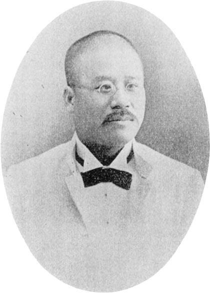 Mr. Yaichi Haga.